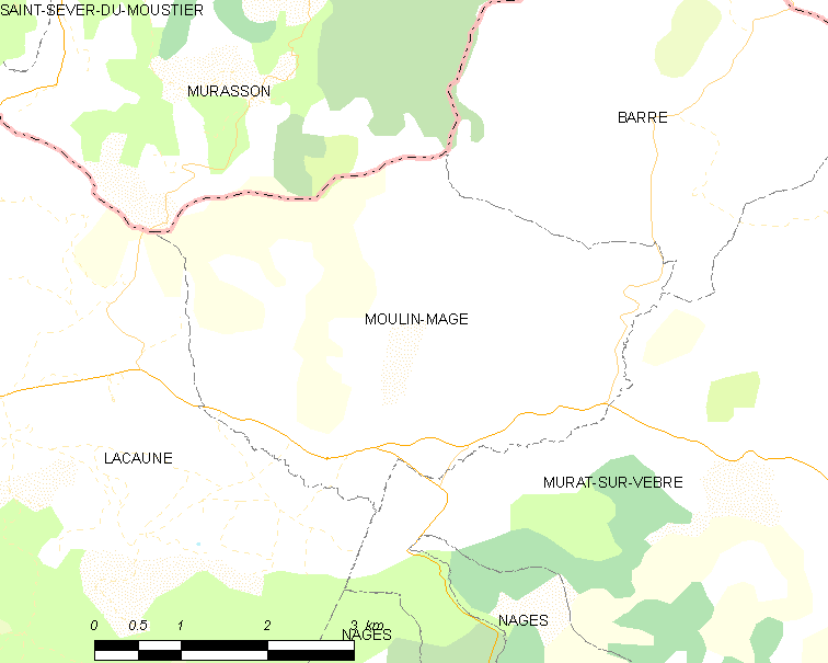 Map commune FR insee code 81188.png - Moulin-Mage